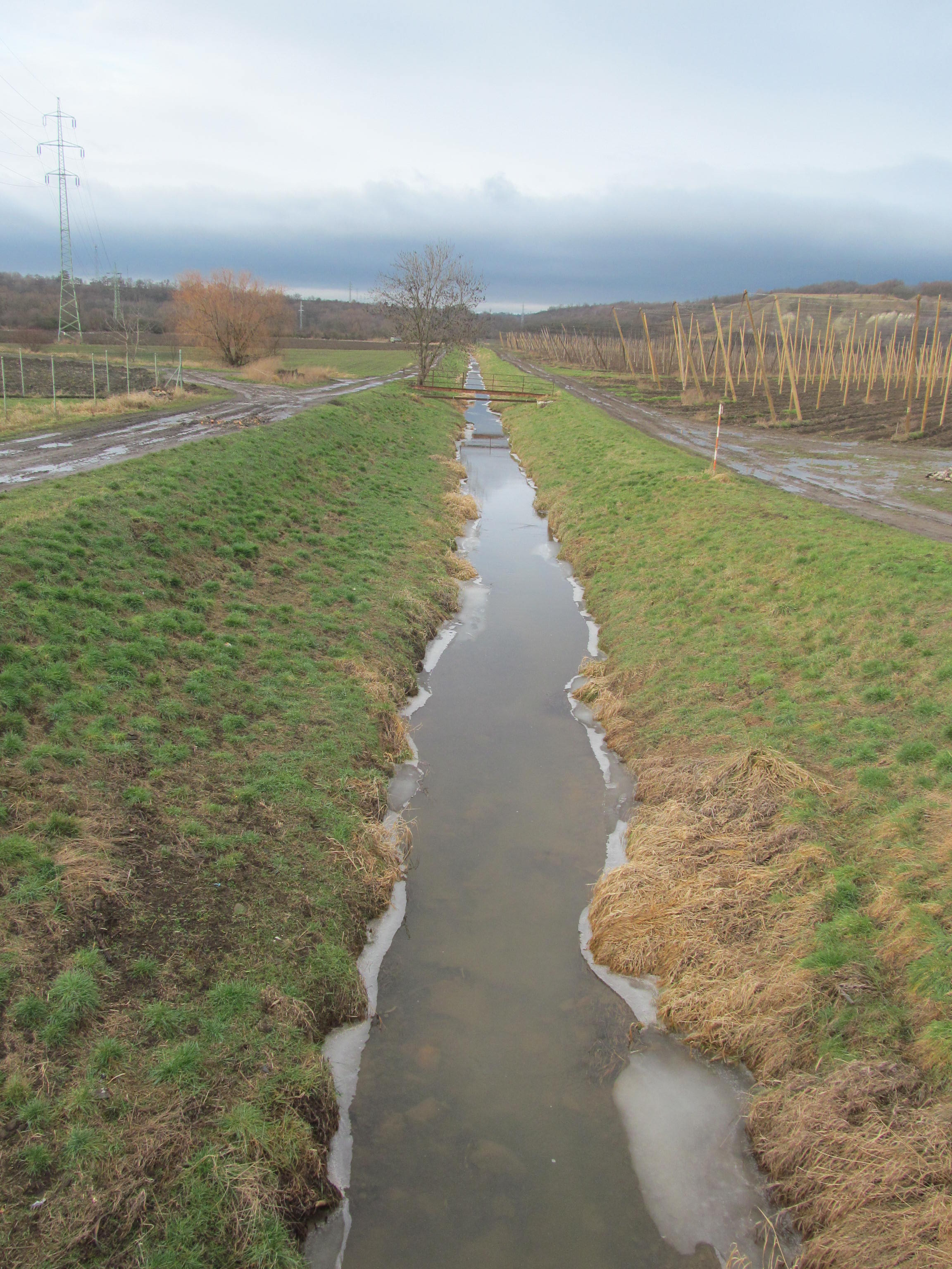 Černovický potok between Žatec and Staňkovice